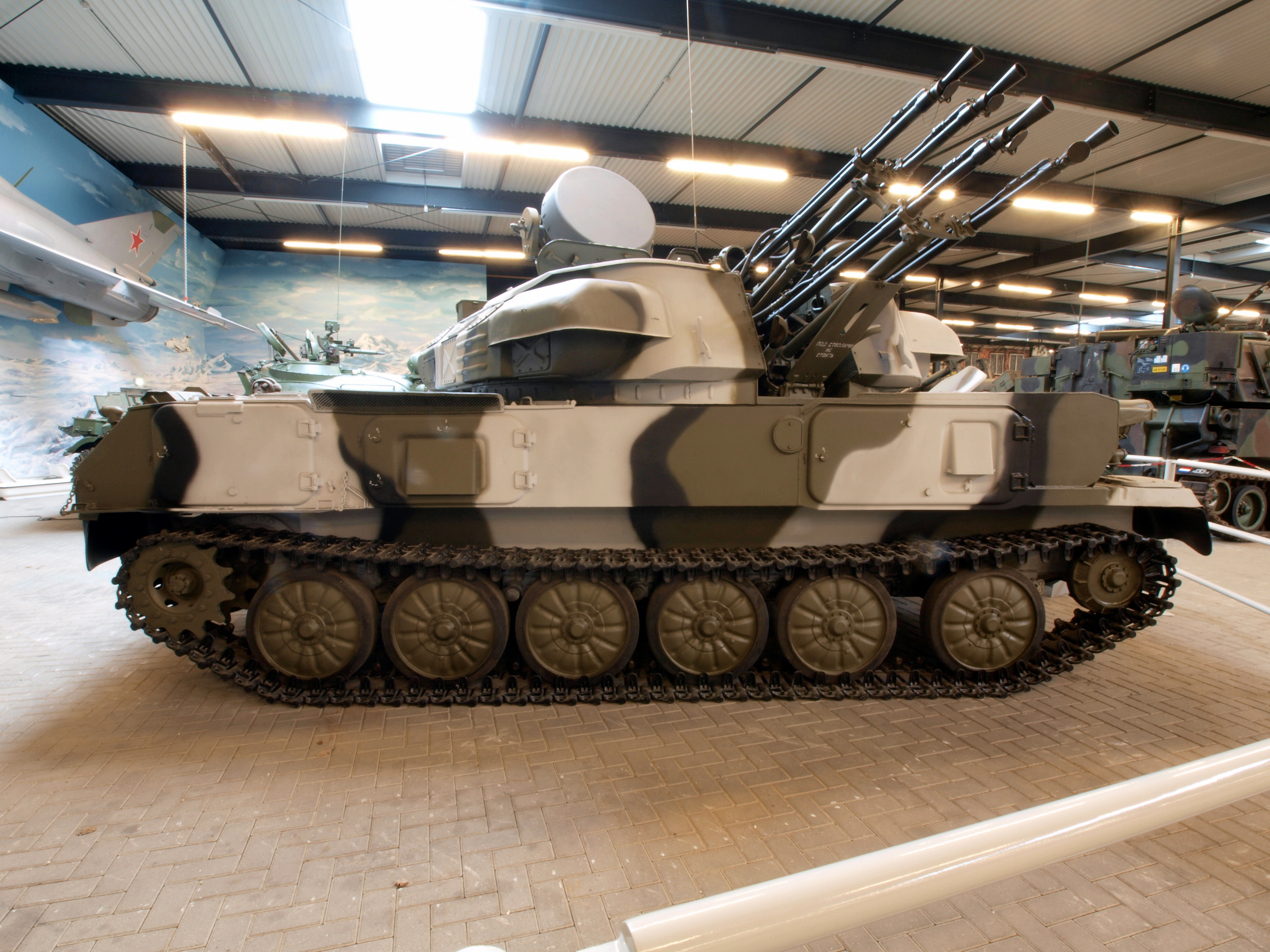 Photographed at the Marshallmuseum - Liberty Park - Oorlogsmuseum Overloon, The Netherlands. OLYMPUS DIGITAL CAMERA